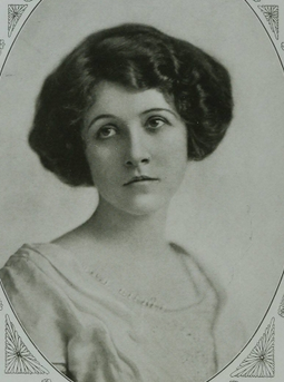 A young white woman's face and upper torso, in an oval frame. Her dark wavy hair is arranged at chin length, and she is wearing a light-colored dress with a scooped neck.